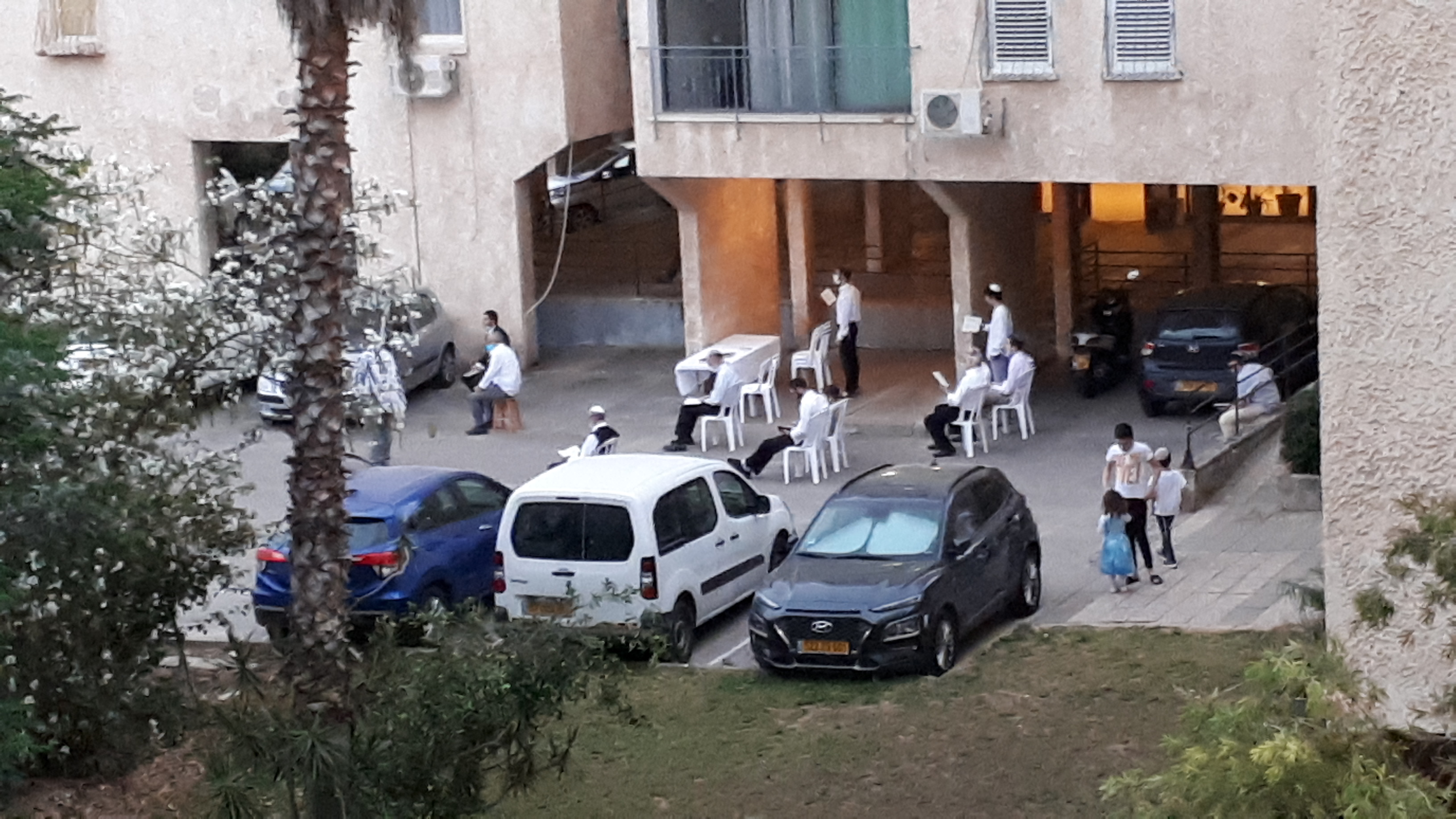 Shabbat prayer while keeping social distancing, Raanana, April 2020 - due to COVID-19 pandemic